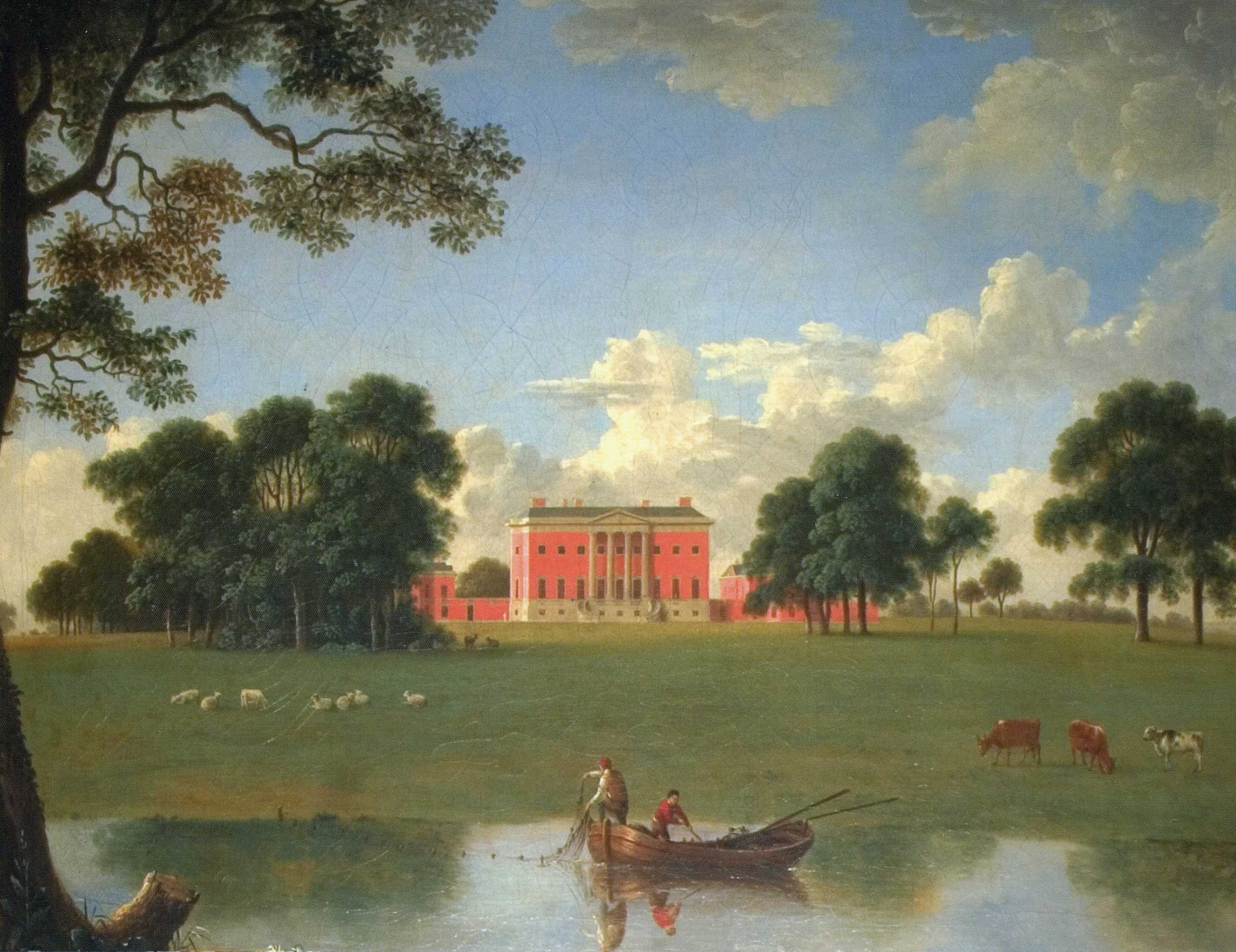 Painting of the south front of Tabley House from the south; a painting by Anthony Devis (1729-1816) scanned from the booklet by myself